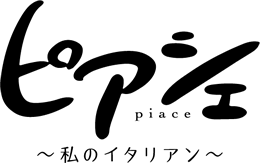 Logo of Piace: Watashi no Italian.